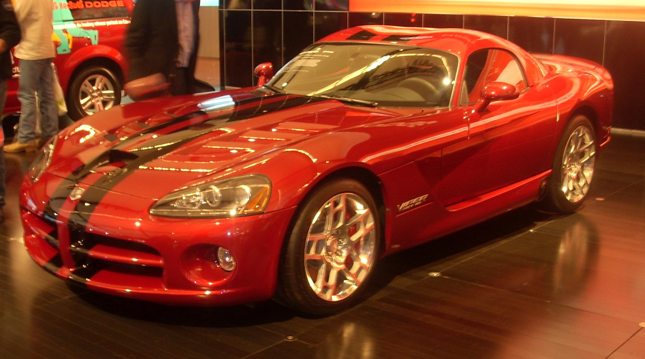 2008 Dodge Viper photographed at the Montreal Auto Show.